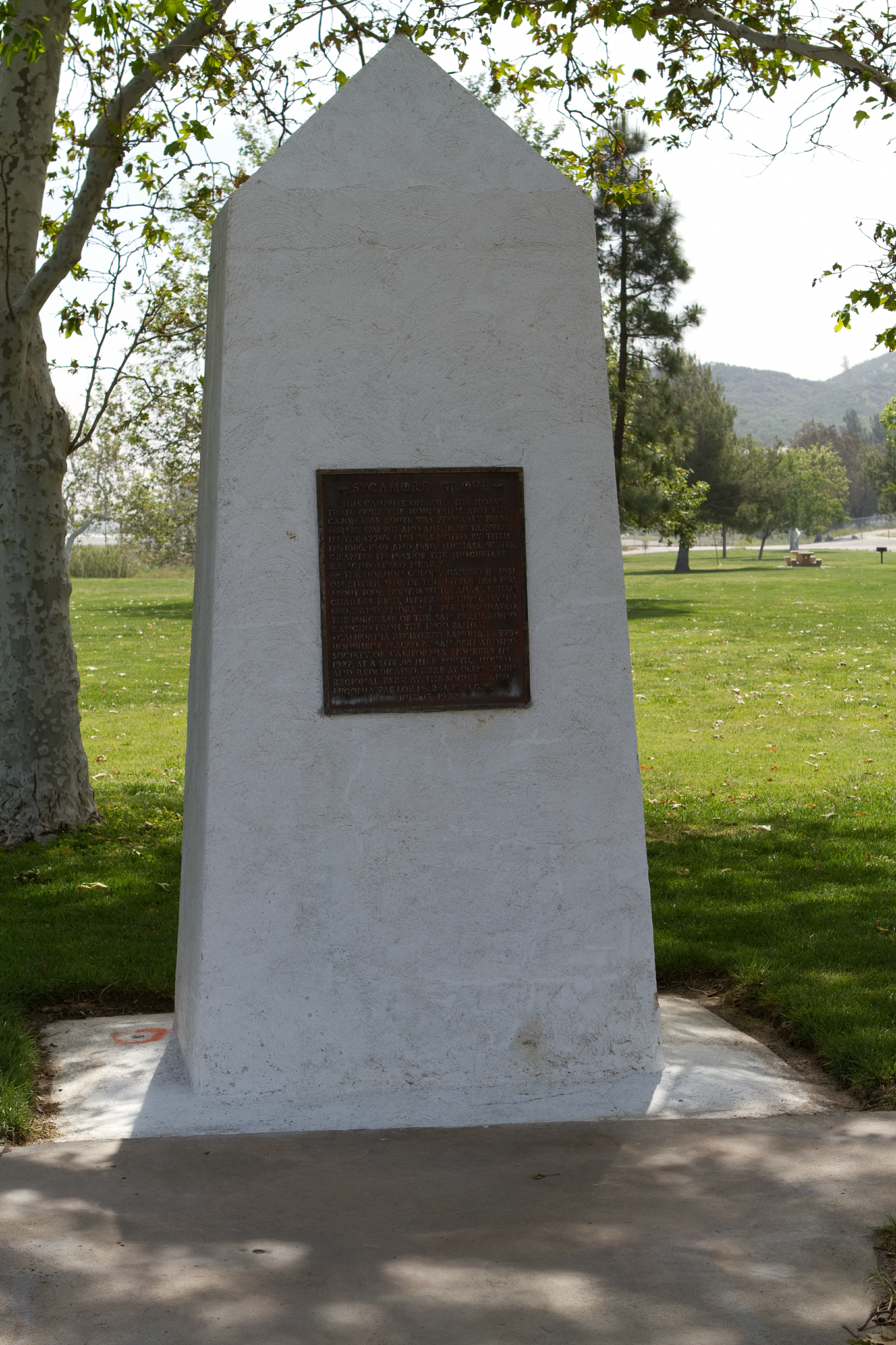 Sycamore Grove